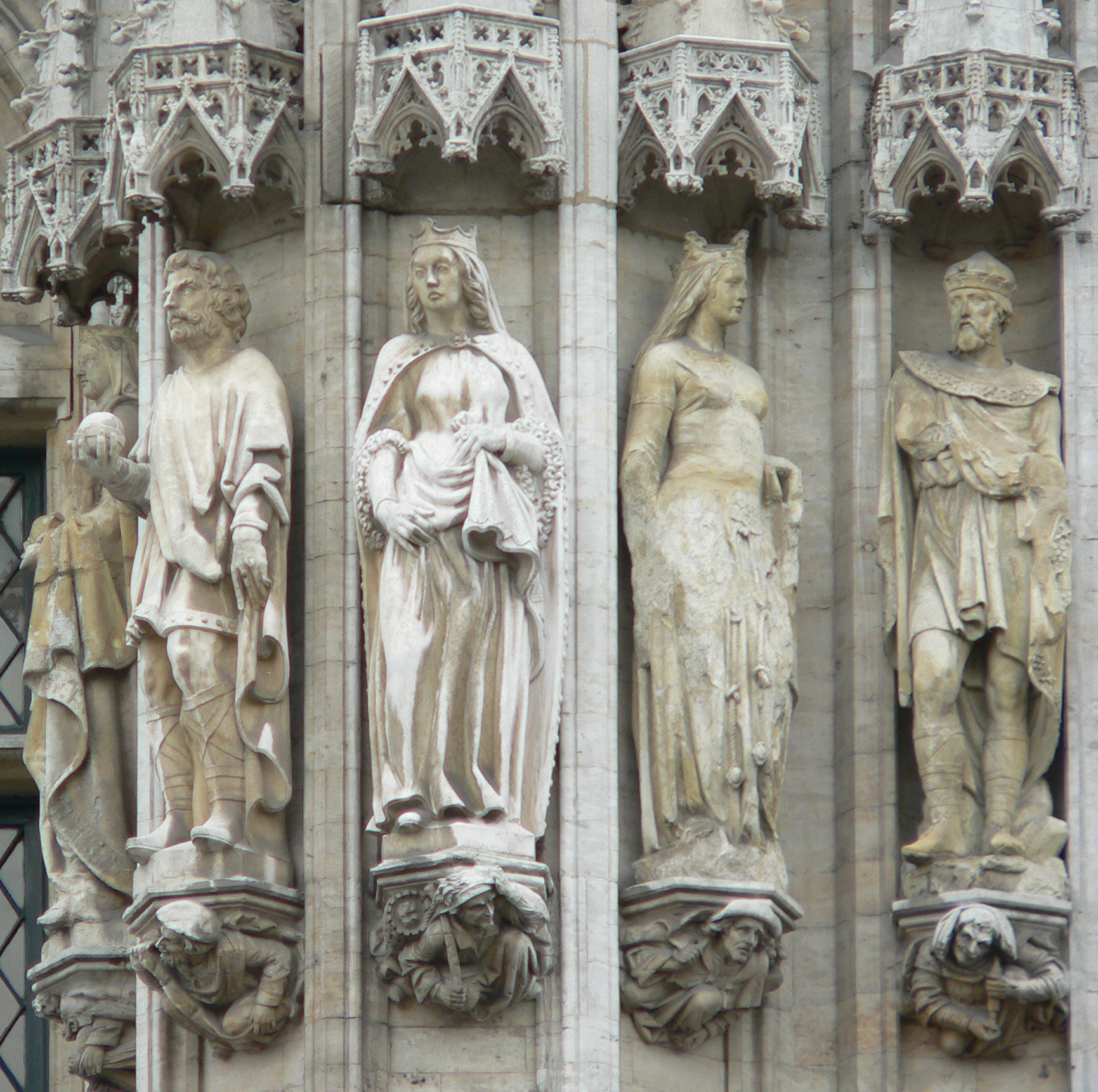 Brussels Grand Place, detail of Rathaus